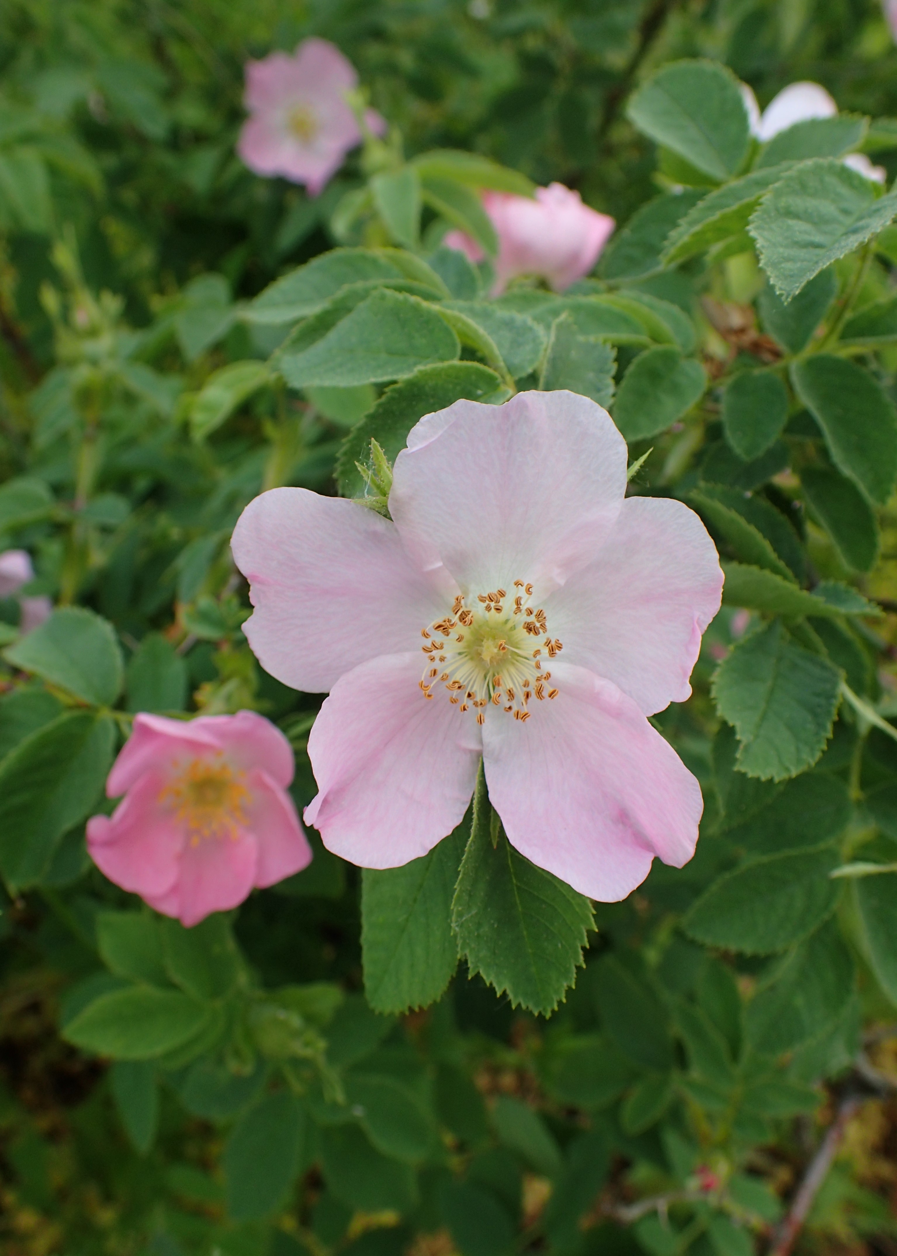 Rosa villosa in the Botanischer Garten, Berlin-Dahlem